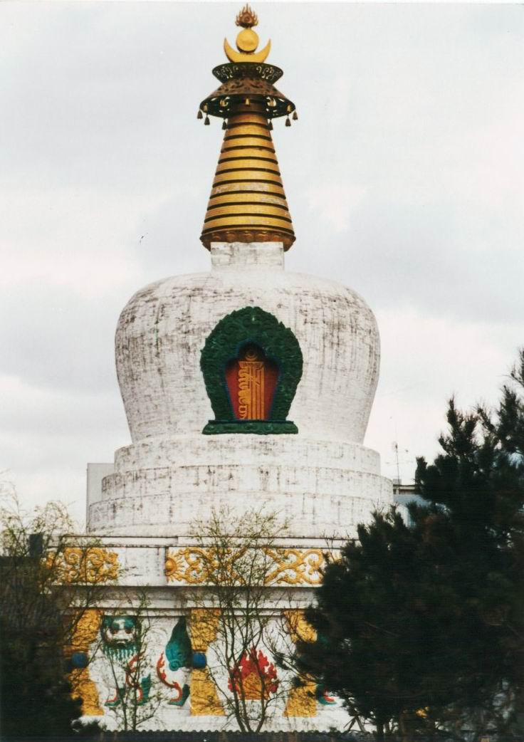 ... 我所拍摄护国法轮寺塔